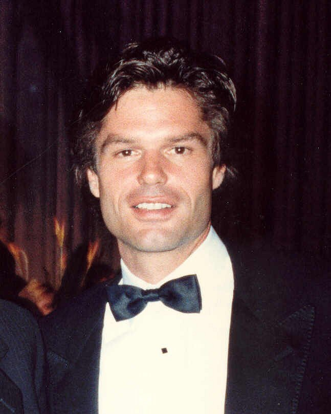 Actor Harry Hamlin at 39th Emmy Awards - Governor's Ball